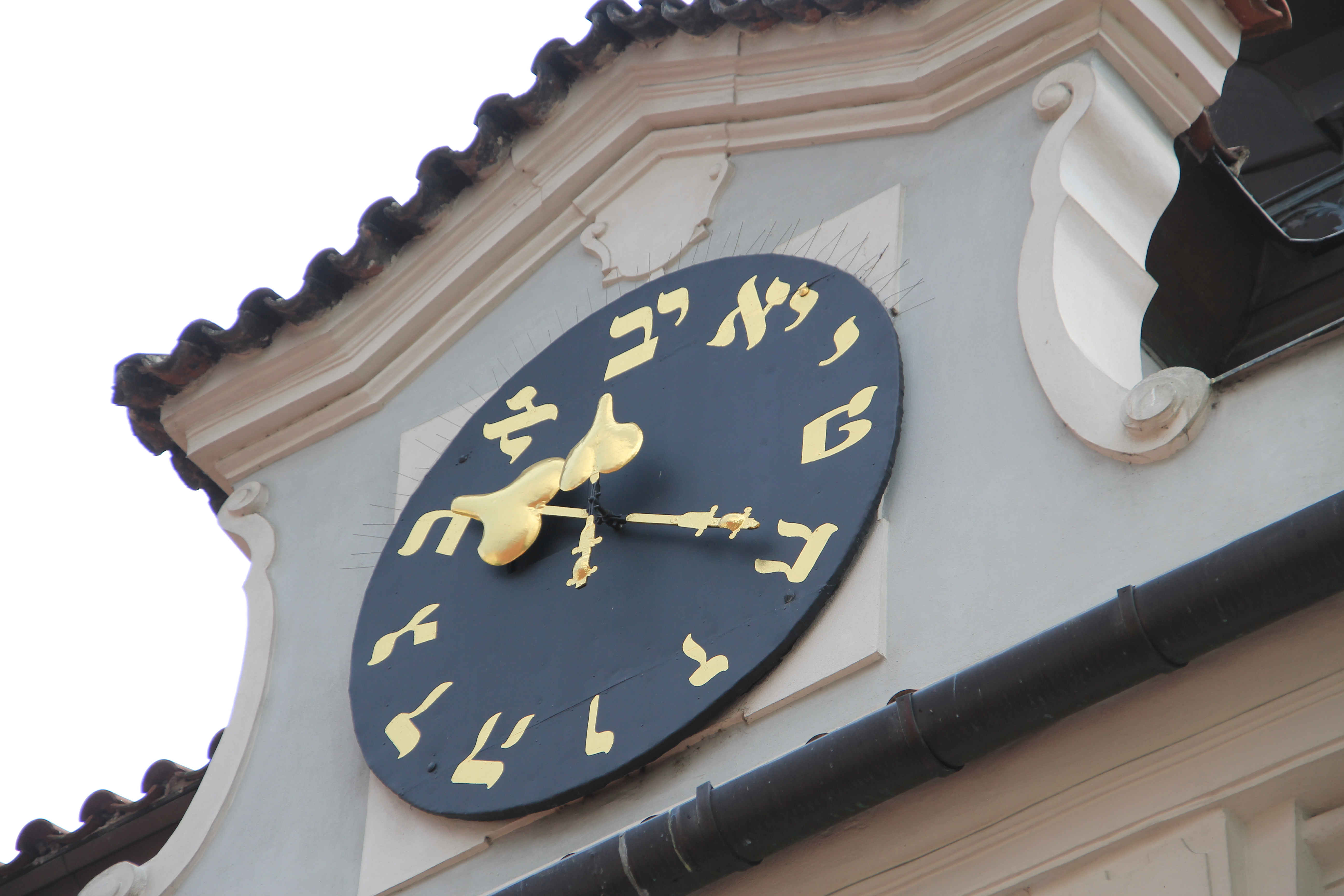 Jewish clock at city hall Josefov in Prague